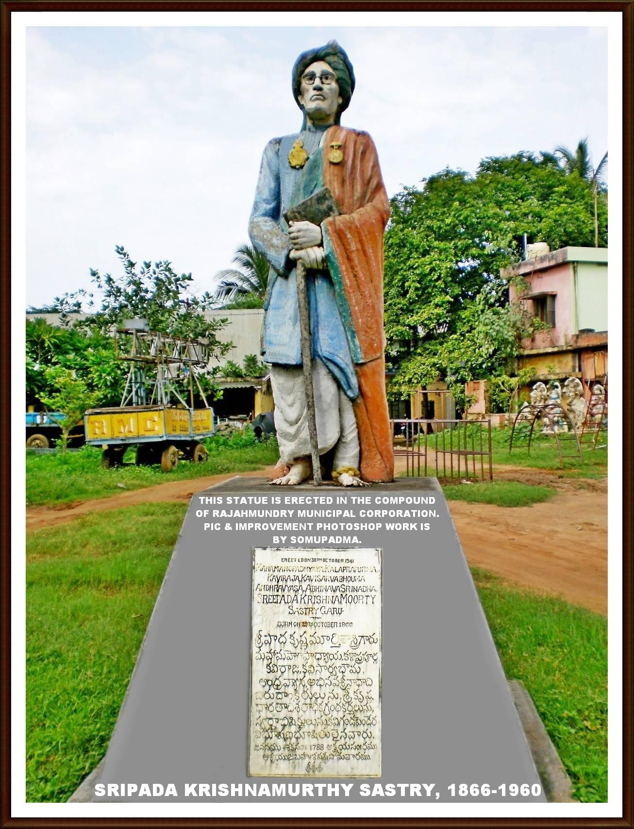 Picture of Sripada Krishnamurty Sastry statue erected in 1941 at Rajahmundry municipal corporation compound.